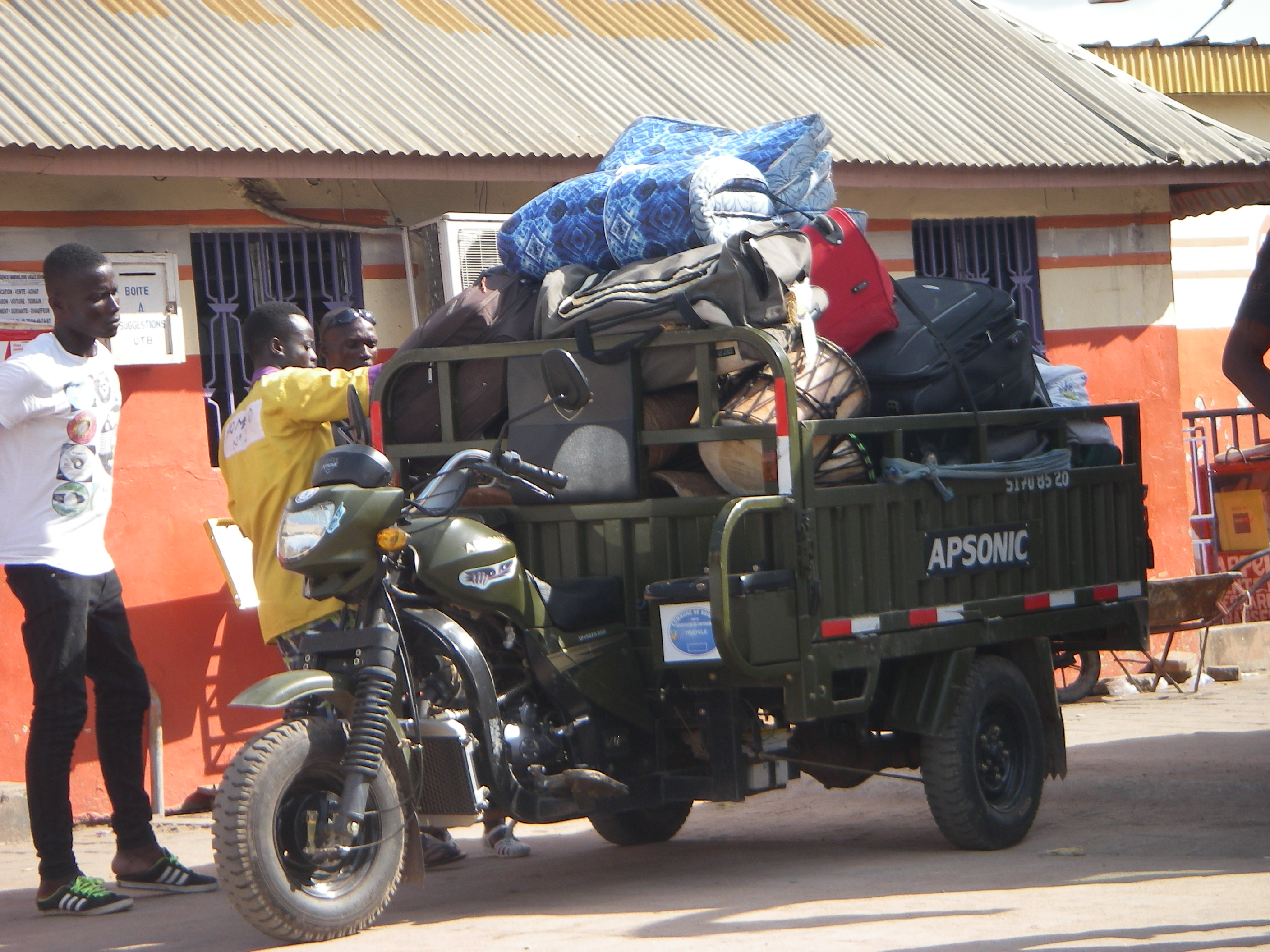 Motor tricycle taxi in Bouaké bus station, Ivory Coast